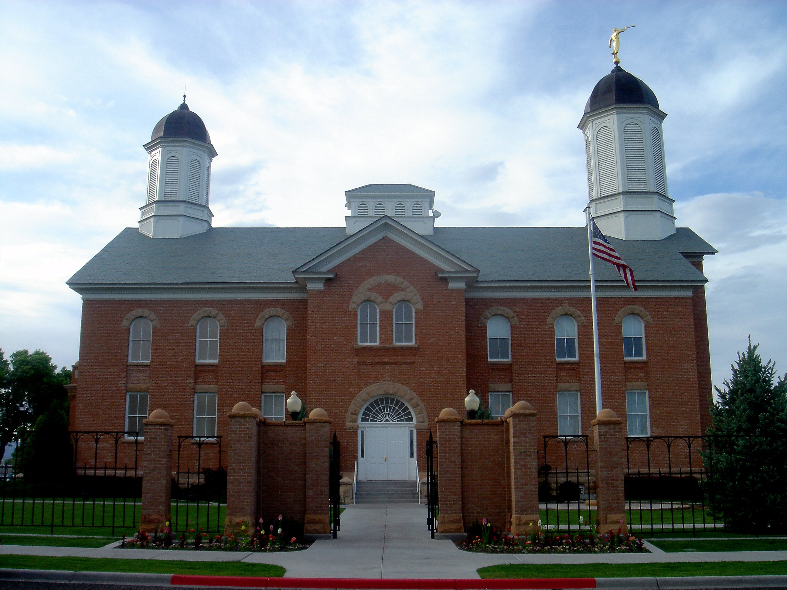 The Vernal Utah Temple of The Church of Jesus Christ of Latter-day Saints. User:Mooncowboy took this picture in June 2006.